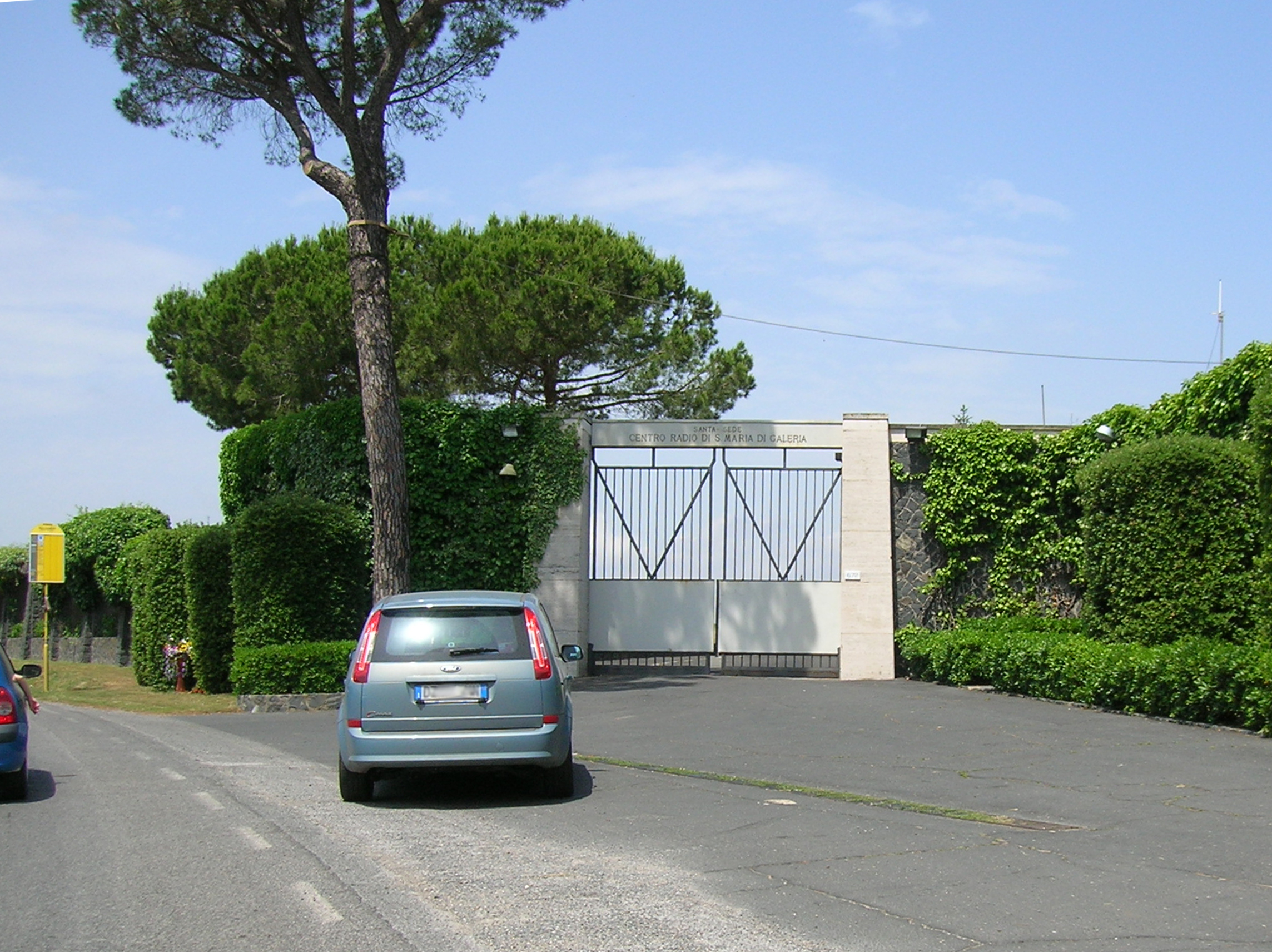 Entrance to the extraterritorial Santa Maria di Galeria transmitter site of Vatican Radio, Italy.